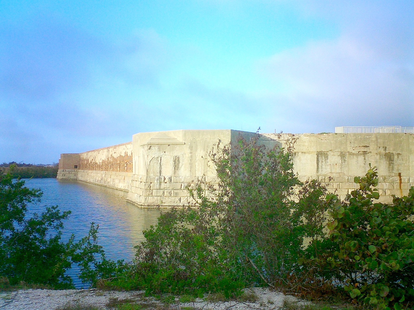 Digital photo taken by Marc Averette. Fort Zachary Taylor in Key West, FL. Dec 2005